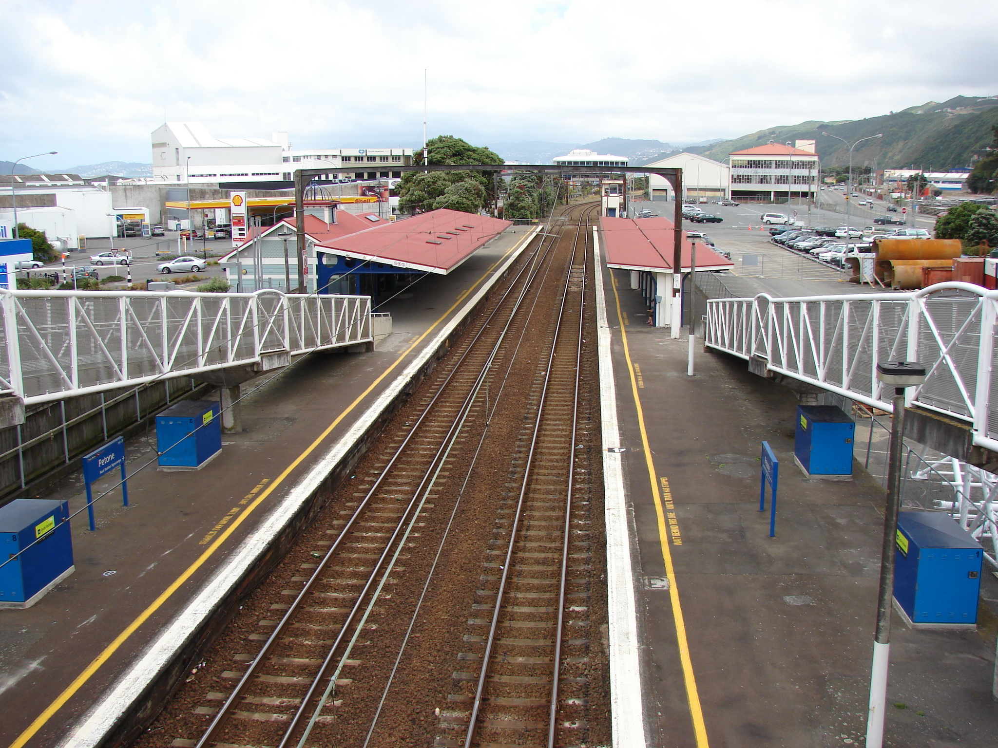 Petone railway station from above. Photographed by Matthew25187 on 2007-12-24.